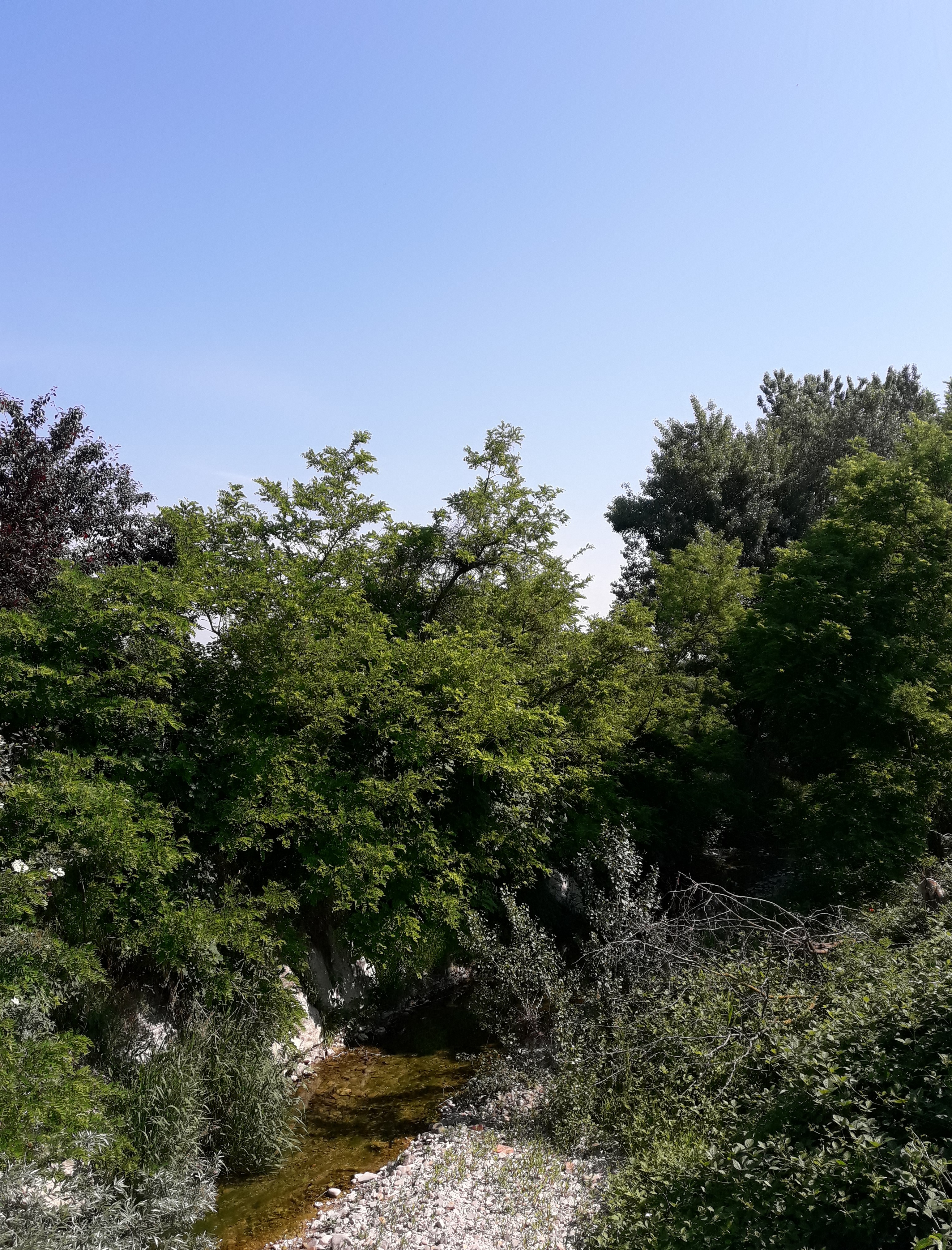 The river Vezzeno near Celleri, municipality of Carpaneto Piacentino, Piacenza, Italy